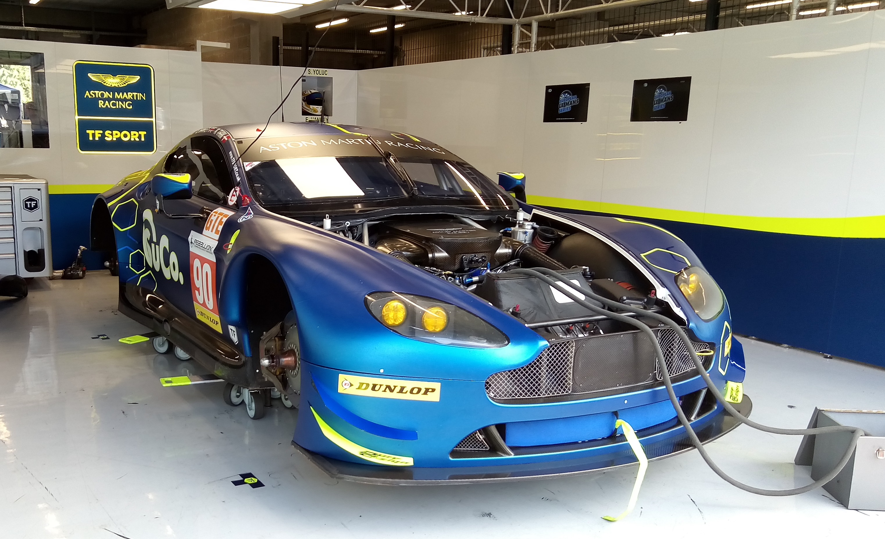 TF Sport Aston Martin V8 Vantage GTE as raced by Salih Yoluc, Euan Hankey and Nicki Thiim in the 2017 4 Hours of Spa.